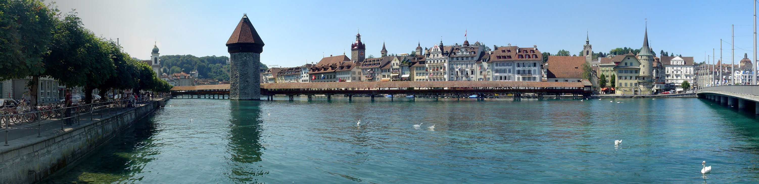 Kapellbrücke, Lucerne